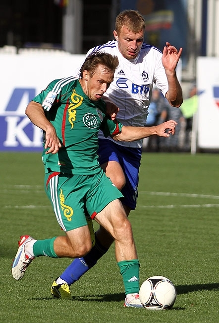 Maciej Rybus